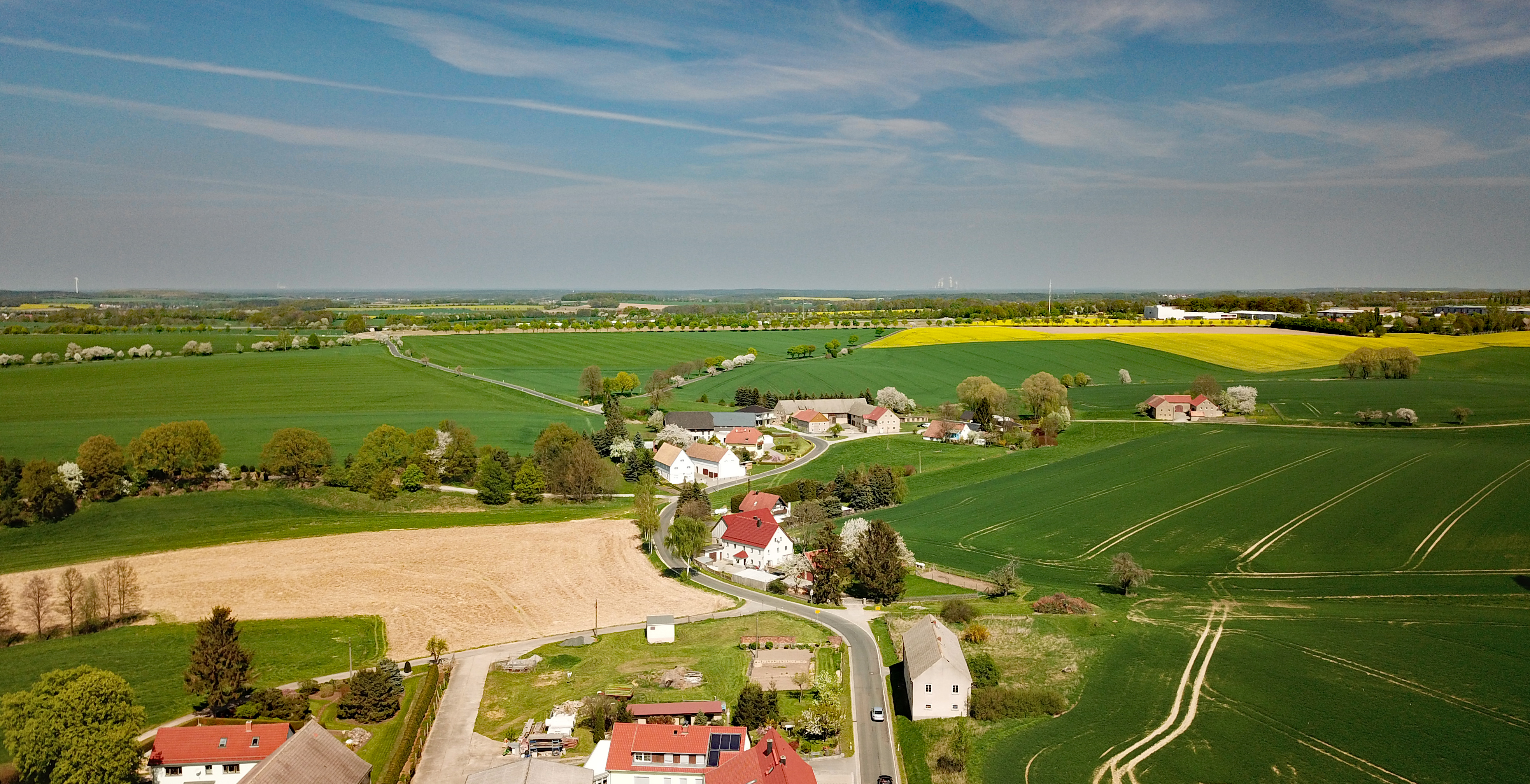 Jannowitz (Göda, Saxony, Germany) Hornjoserbsce: Powětrowy wobraz Janec pola Hodźija